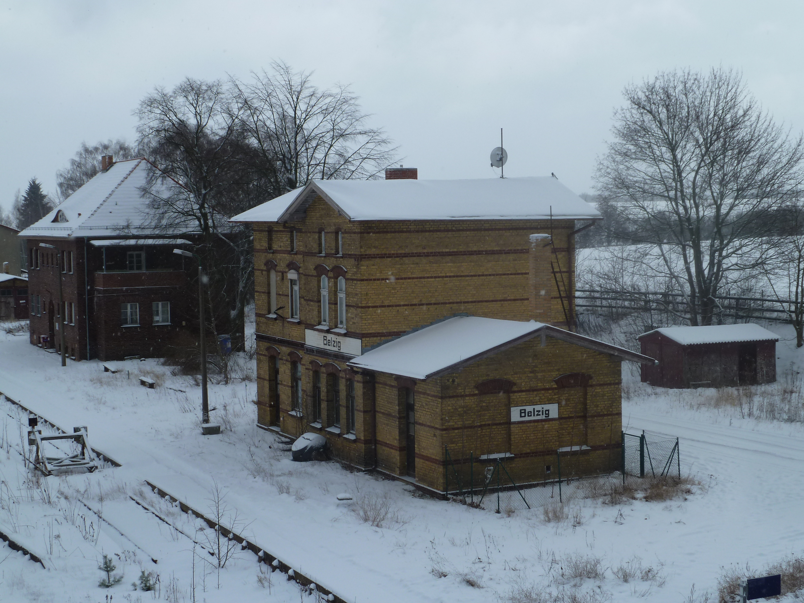 Bahnhof Belzig, former Städtebahn section (direction to Brandenburg and Treuenbrietzen)